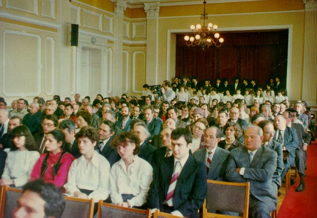 Celebration is at University of Szeged, 04. 04. 1985. Lajos Ferenczy is right.